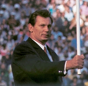 USSR flag at the opening ceremony of the XX Olympiad. Munich, 1972.